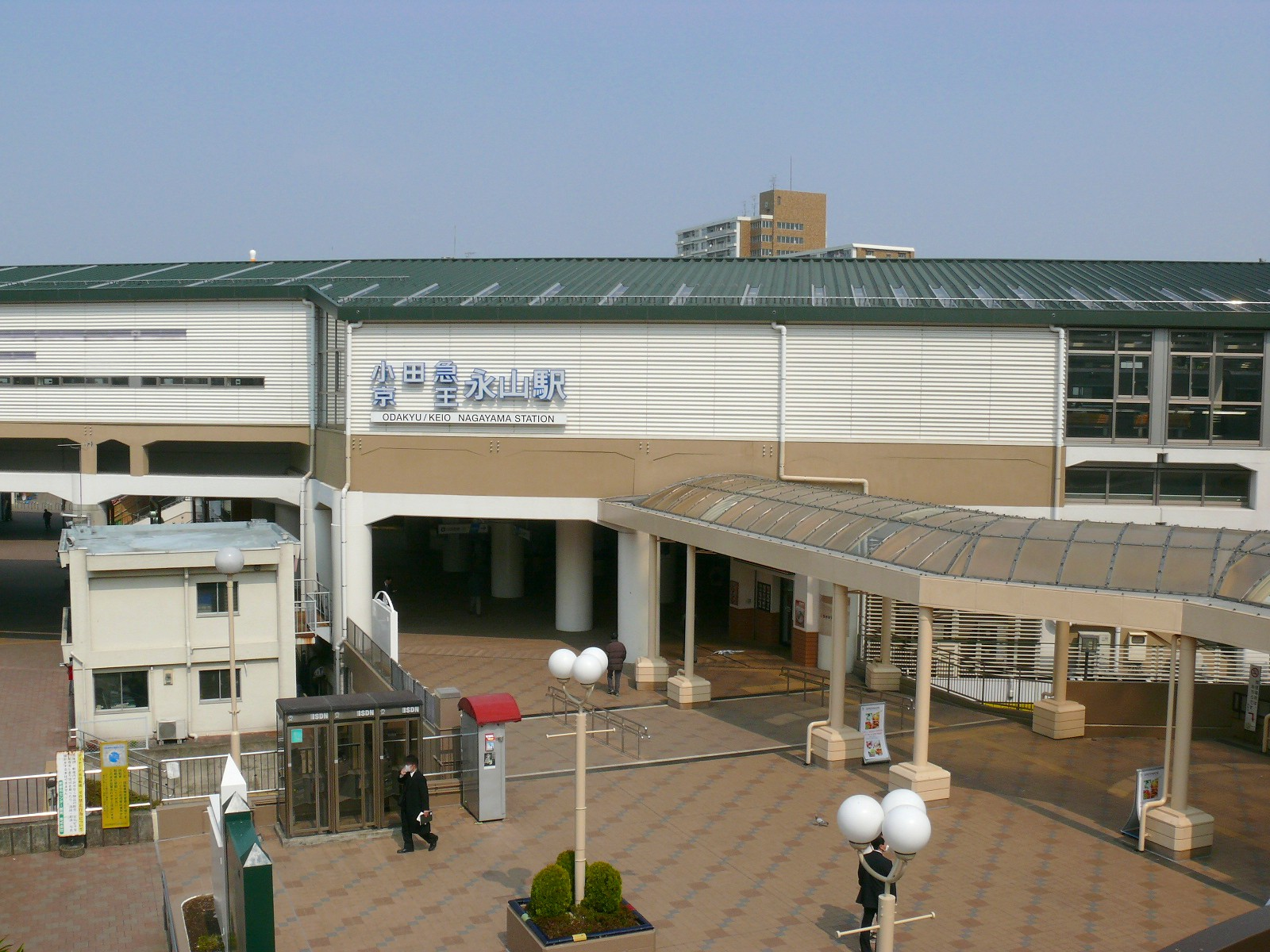 Odakyu tama line Nagayama-Station(Nagayama,Tama-City,Tokyo,Japan). It takes a picture of the station south-exit of Nagayama-Station in the Odakyu-line from the public road. See also Ja:永山駅 (東京都) for more information(written in Japanese). 小田急多摩線の永山駅の駅舎西口を駅前の自由通路から撮影。 駅の所在地は東京都多摩市永山。